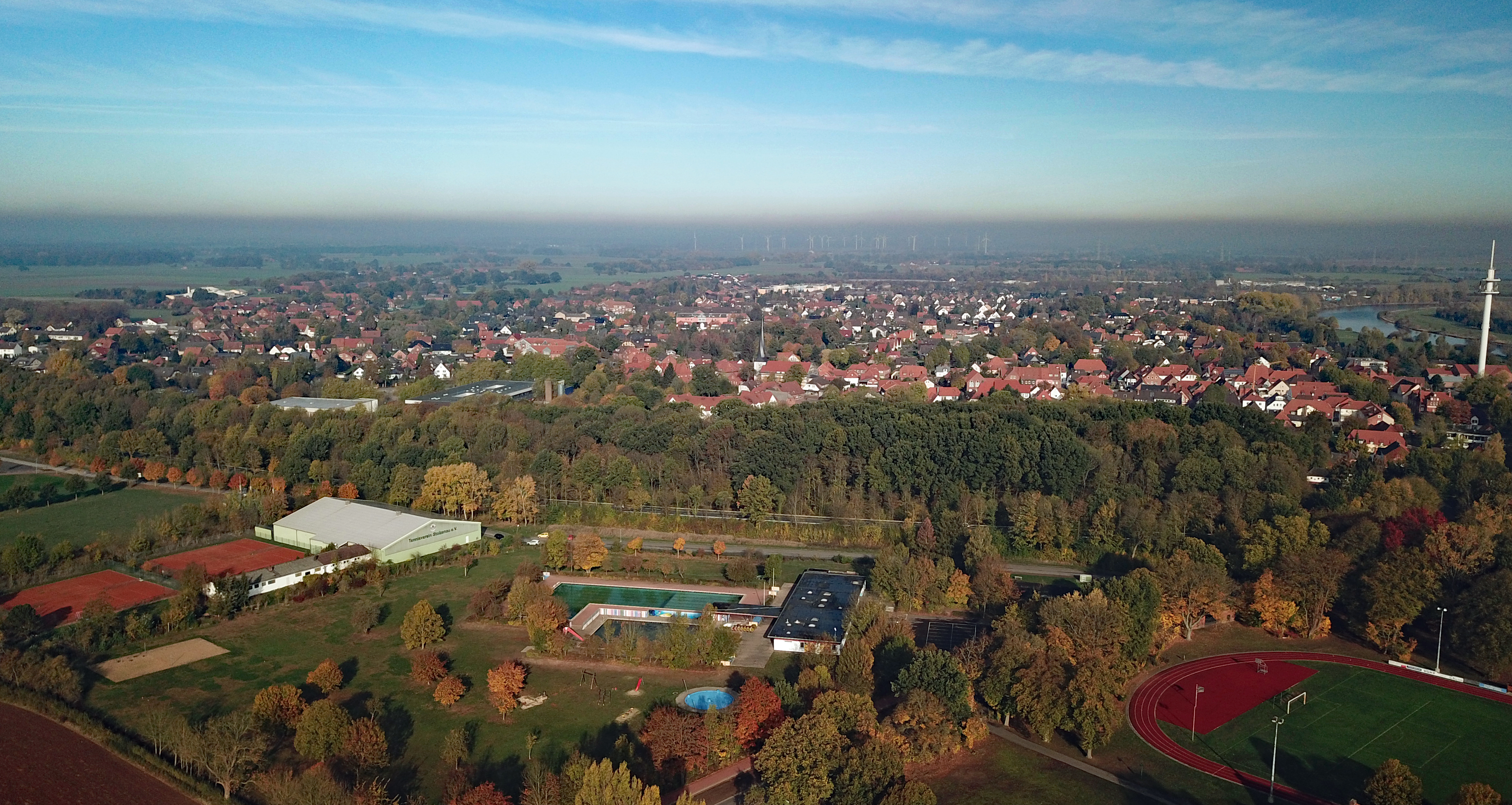 Stolzenau (Lower Saxony, Germany)